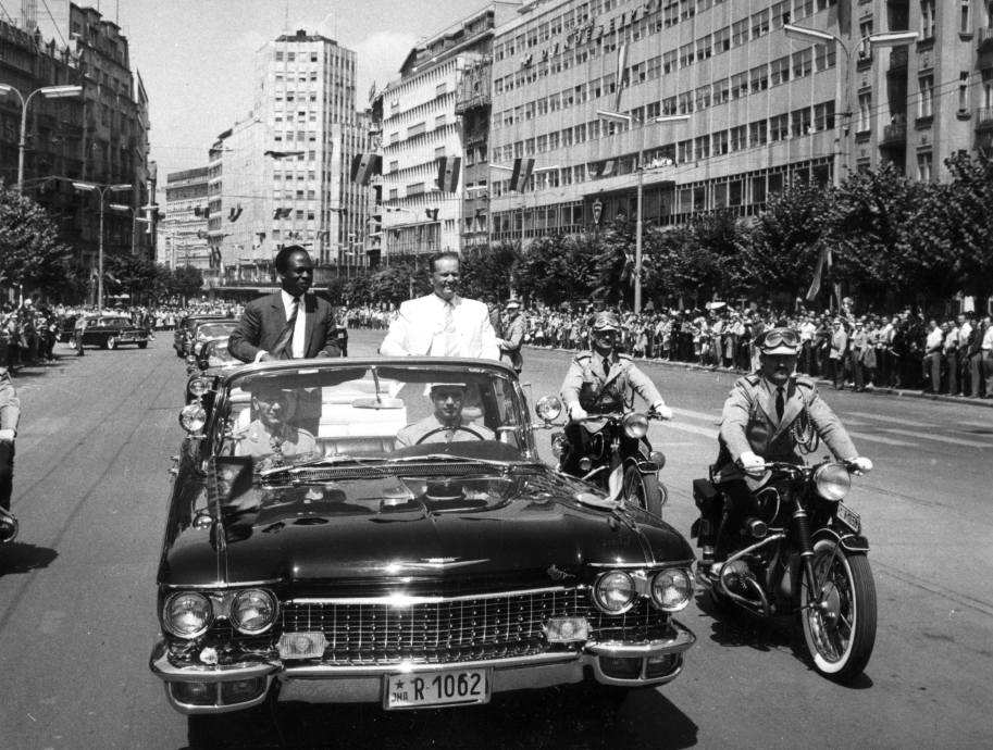 Arrival of the president of Ghana, Kwama Nkrumah, to the Non-alignment movement conference, Belgrade 1961. Legacy of Konstantin Koča Popovic and Leposava Lepa Perovic, album no. 25